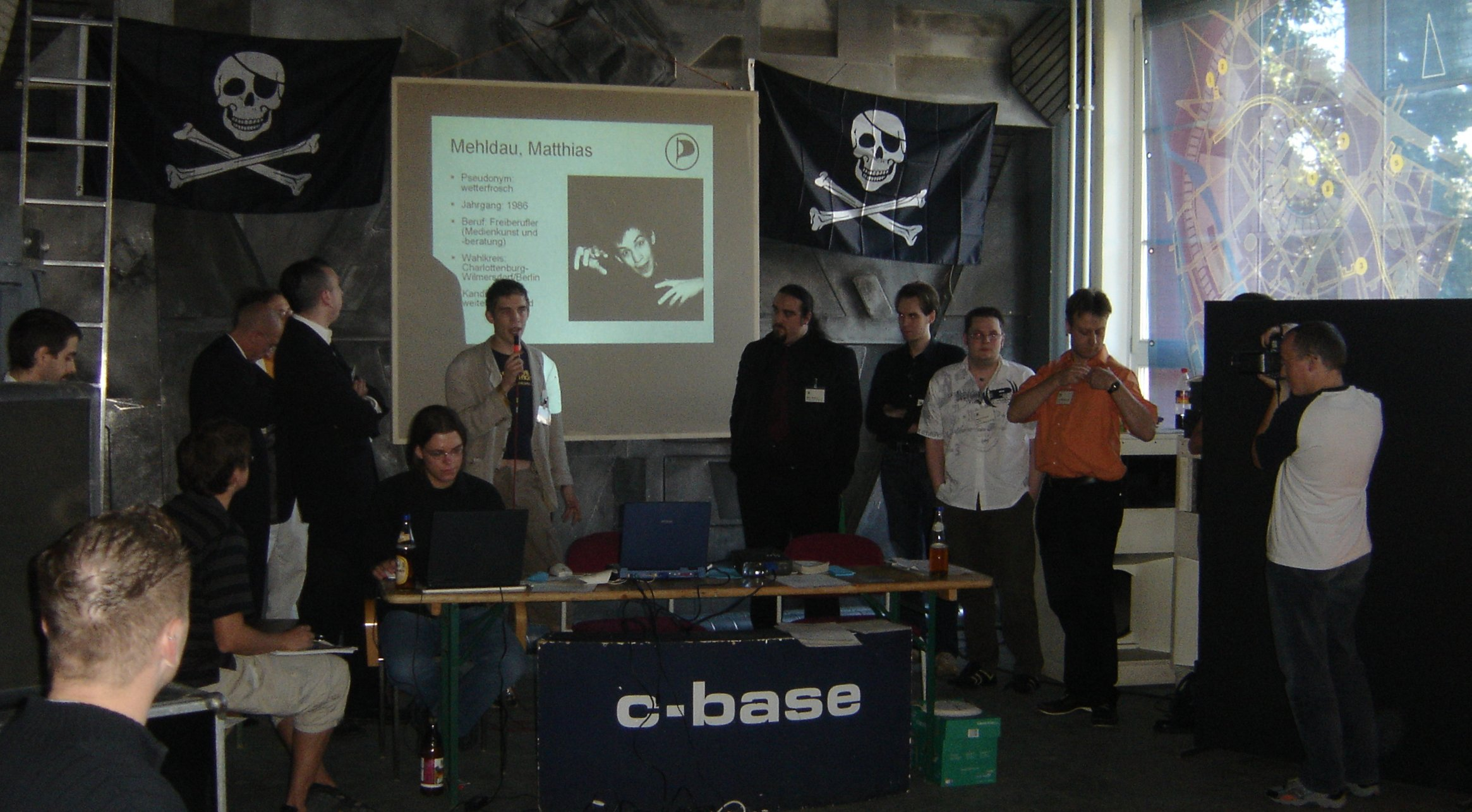 Candidates for the Board of the German Pirate Party (Piratenpartei)